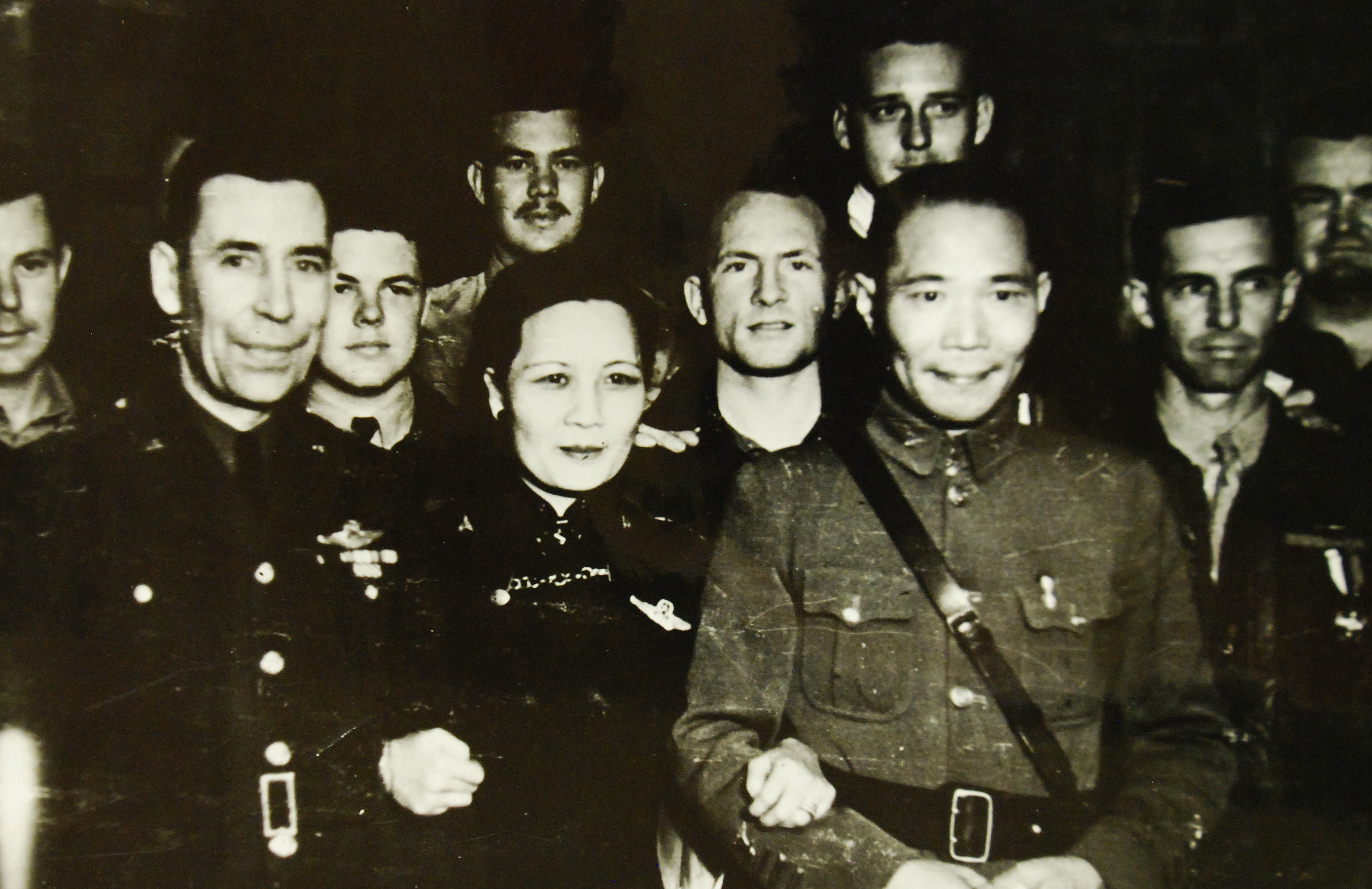 Lot 11629-3: Doolittle Raid on Japan, April 18, 1942. A group of American flyers who were awarded the Military Order of China at Chungking, China, 1942. Left to right: Lieutenant Frank A. Kappeler; Brigadier General Clayton L. Bissel; Lieutenant Kenneth E. Reddy; Madame Chiang Kai-Shek; Lieutenant Lucian N. Youngblood; Lieutenant Eugene F. McGurl; Lieutenant Jacob E. Manch; Generalissimo Chiang Kai-shek; and Captain Rodney R. Wilder. Also: LC-USW33-1152C. Office of War Information Photograph. (2016/01/16).